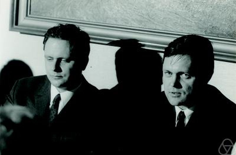 Norbert Kuhlmann (left), Günter Scheja (right), Münster 1967